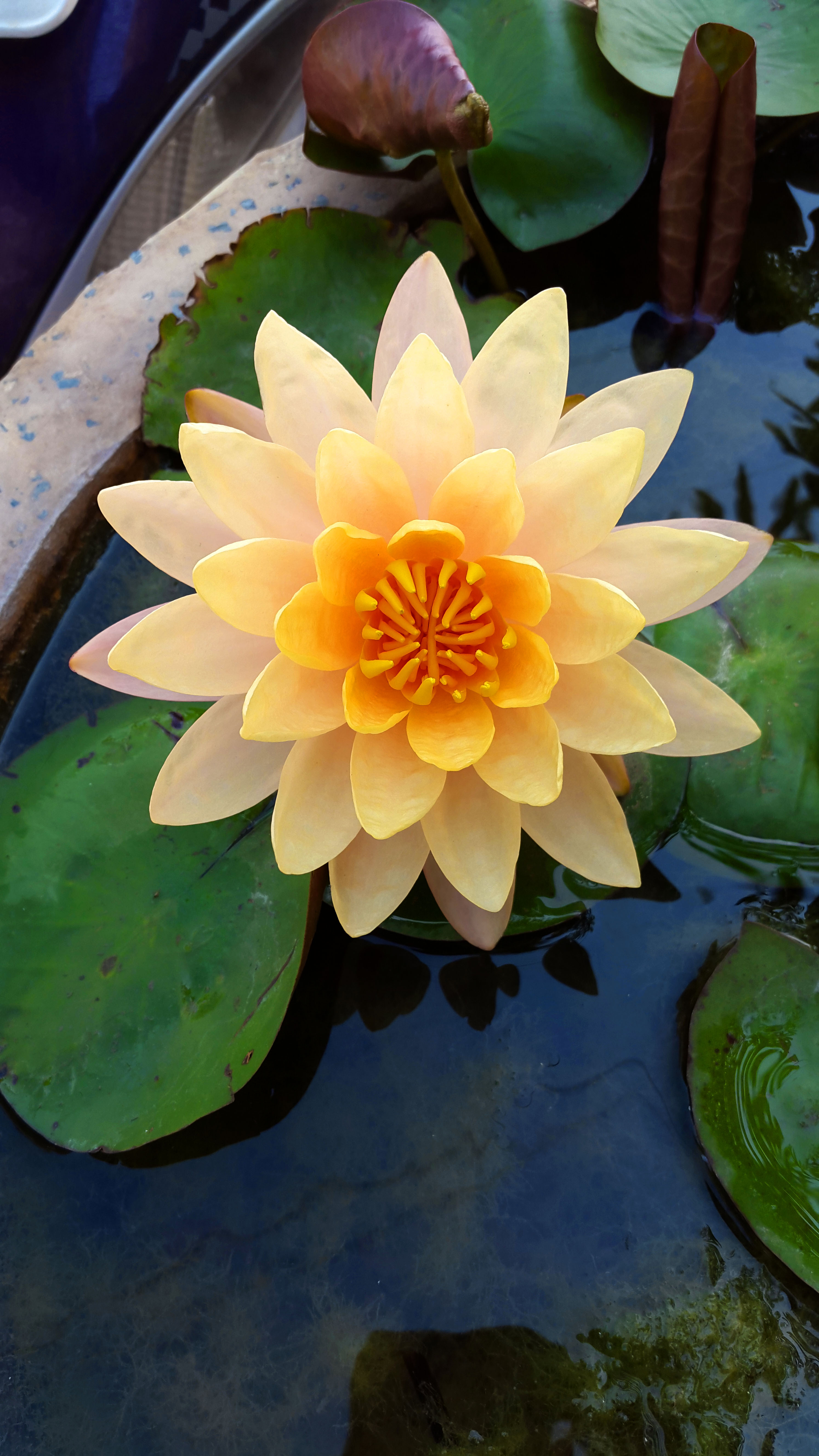 Water Lily clicked at Hyderabad in Sep'2014